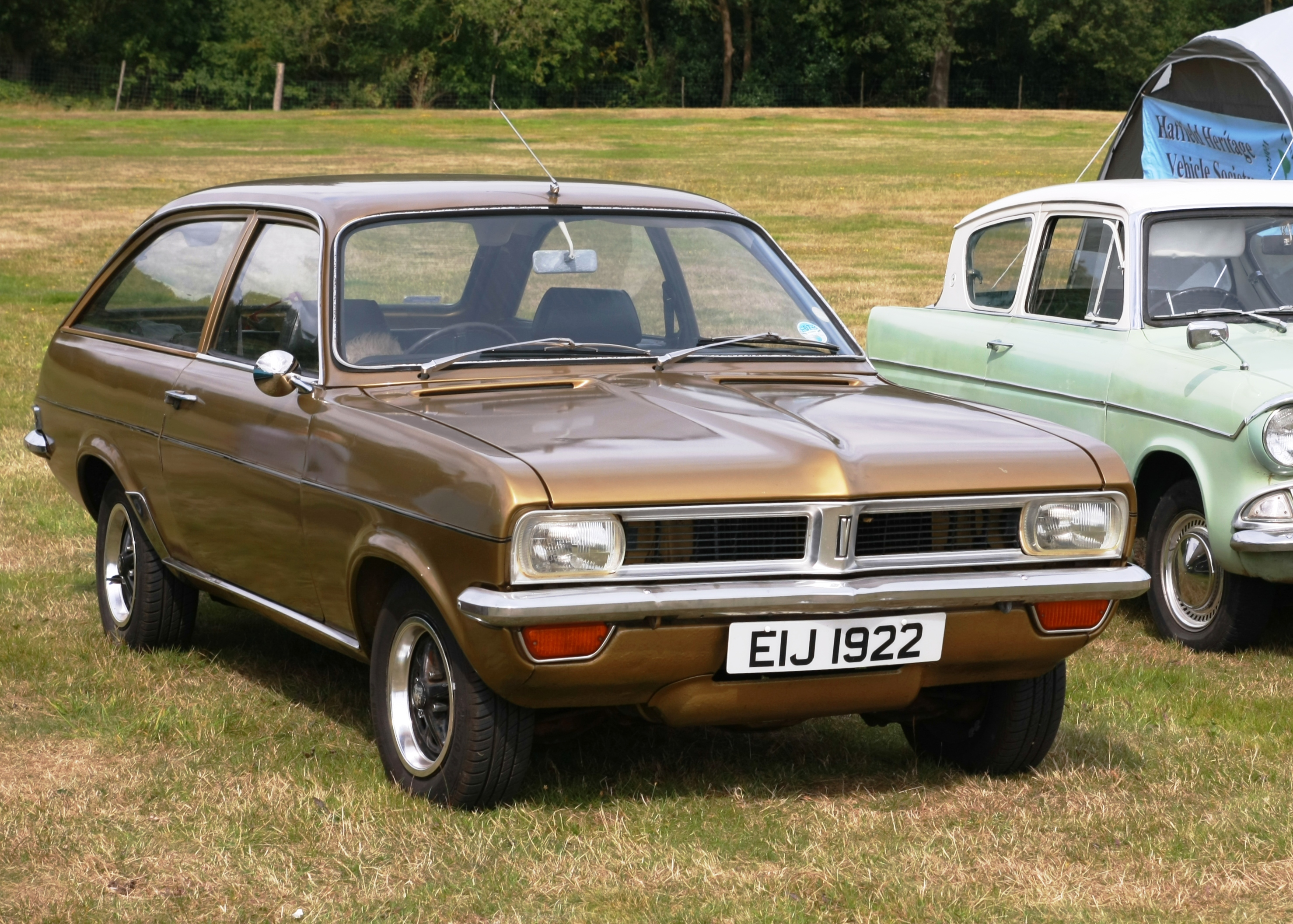 Vauxhall Viva HC estate (1973) at Knebworth (2014)